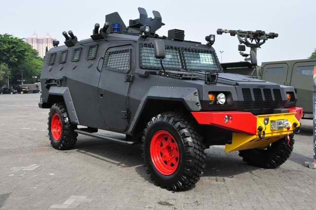 A Pindad Komodo APC in Indodefence 2012 with red and yellow markings, which would indicate that it's to be used as a BRIMOB vehicle.